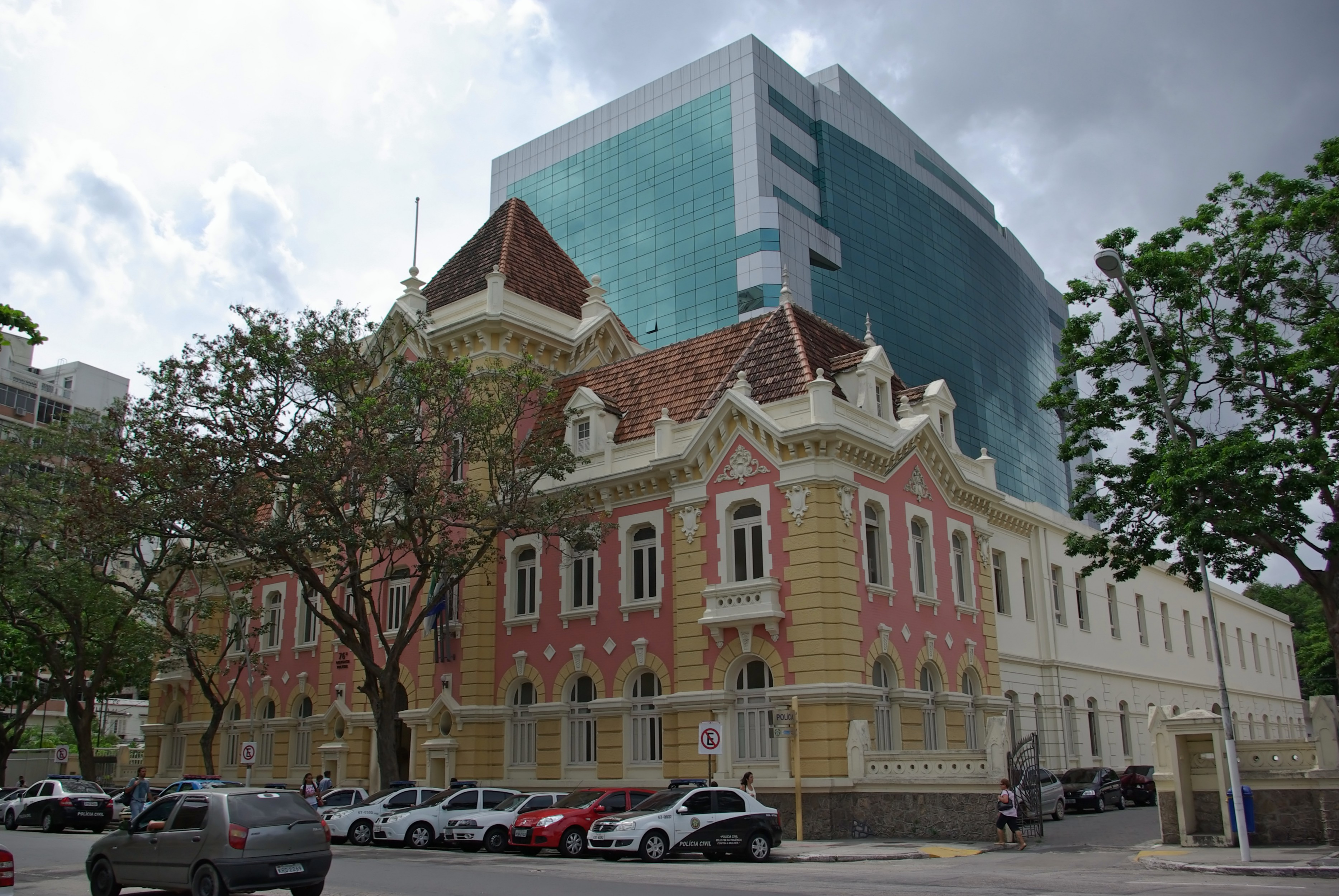 76th Niteroi police station